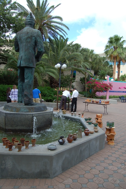 Picture taken on TAMUCC campus